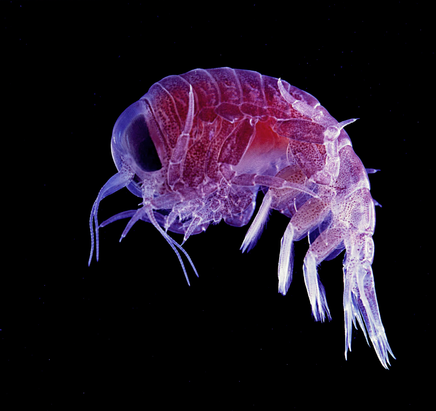 Hyperia macrocephala - flipped version of this image